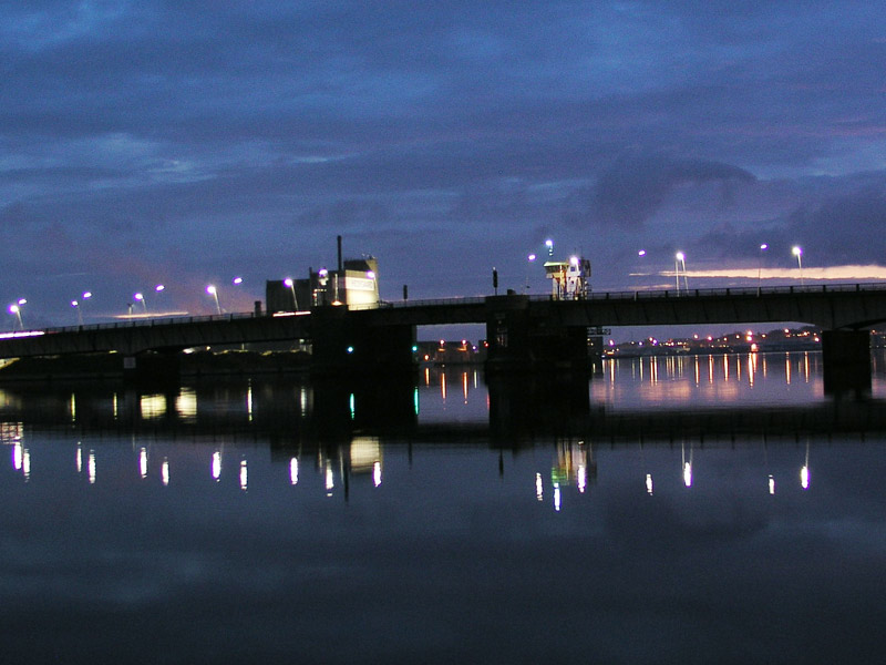 The Limfjordsbroen (Limfjords Bridge) as seen from the harbour